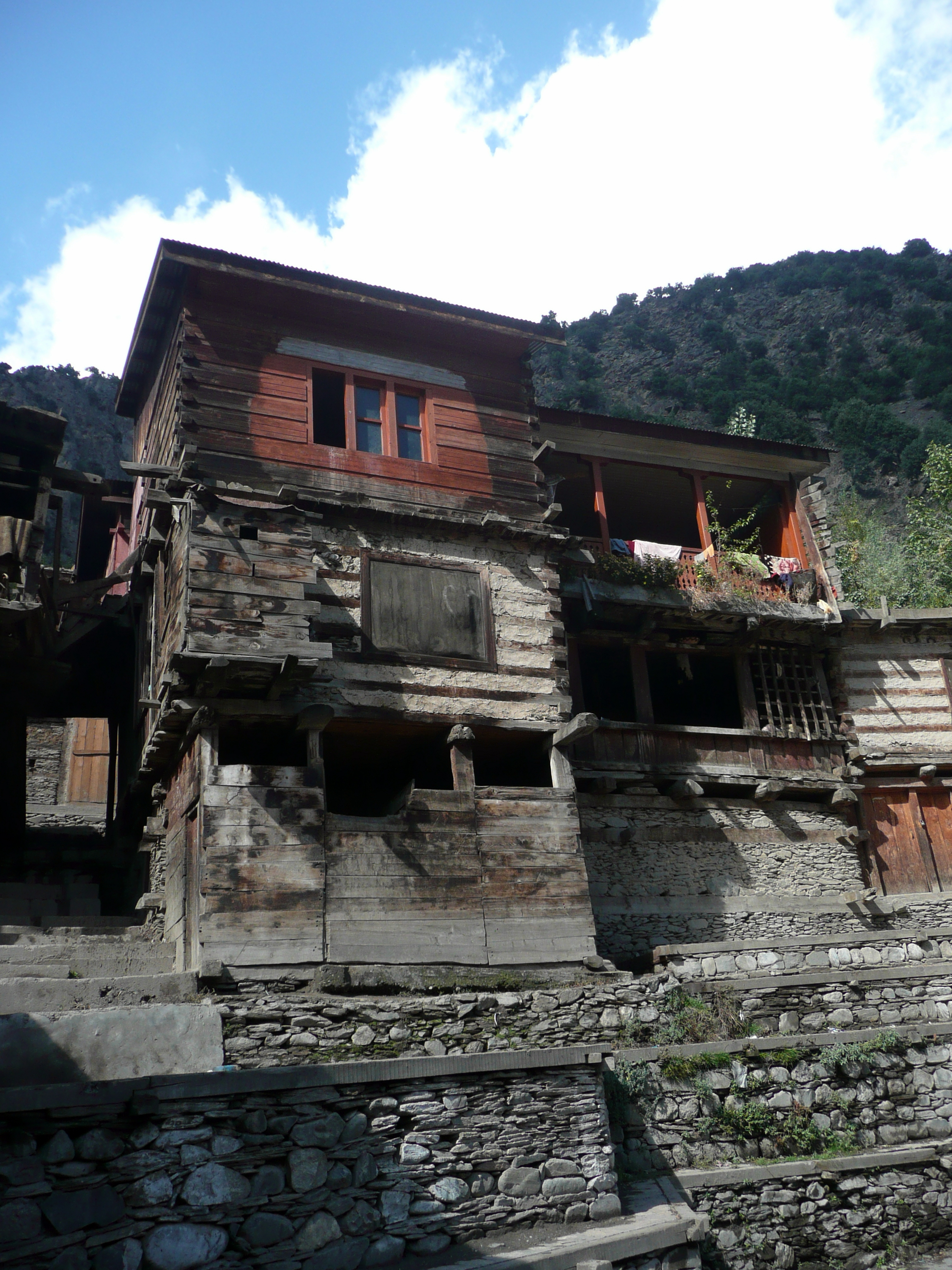 Kalasha house